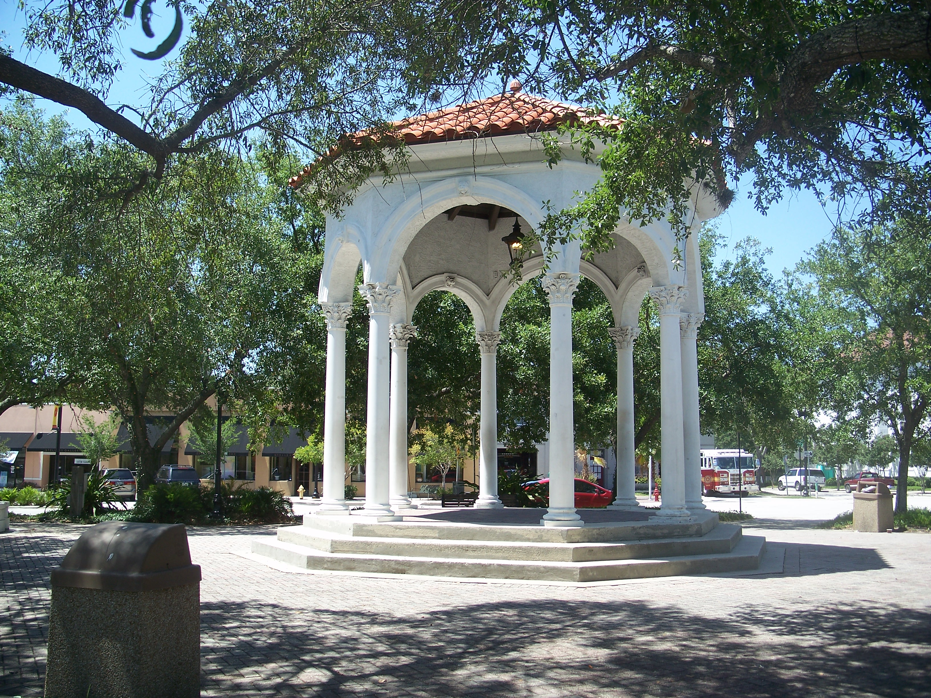 Jacksonville, Florida: San Marco area: Balis park gazebo